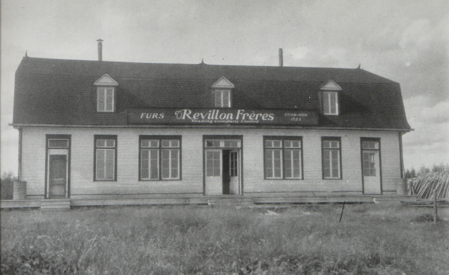 Revillon Frères office in Moosonee, Ontario, Canada